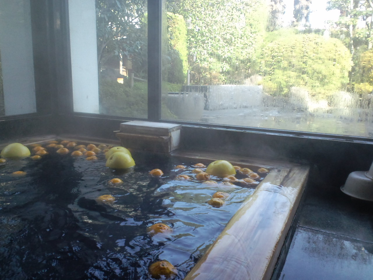 Banpeiyu-Furo-Hinagu-Kumamoto. 熊本県八代市の日奈久温泉で冬季限定で実施されているばんぺいゆ風呂（金波楼）。一緒に入っているのはデコポン。, Yatsushiro, Japan.